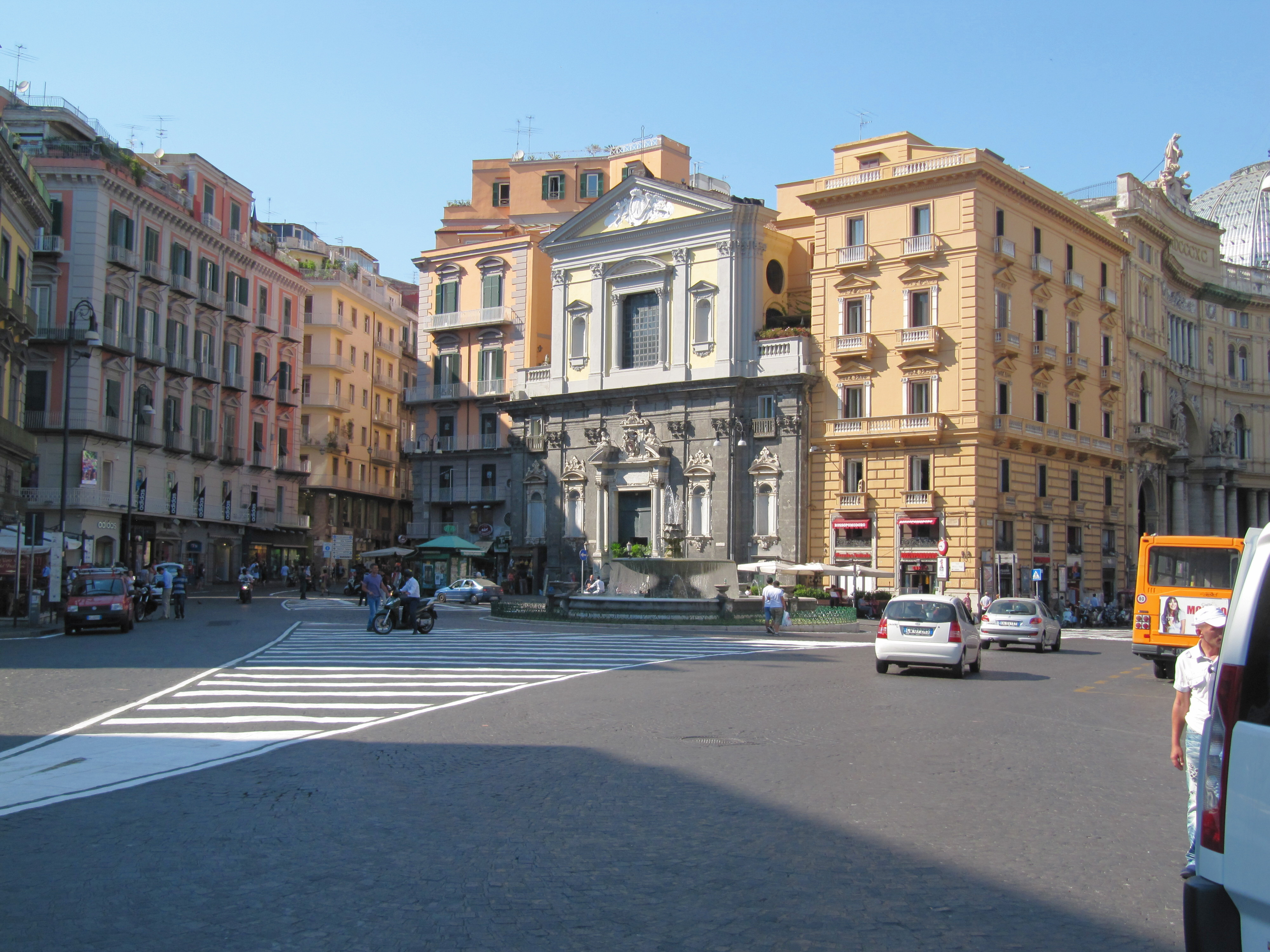 Naples, Italy.